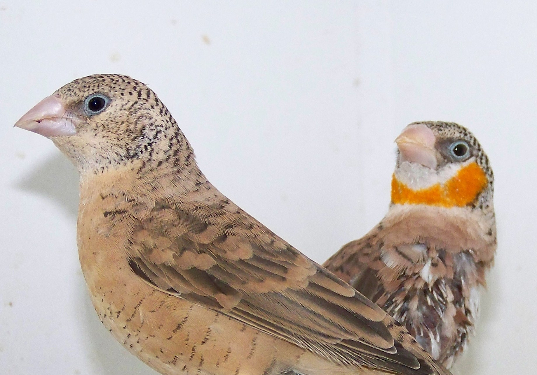 Cut-throat Finch (Amadina fasciata)